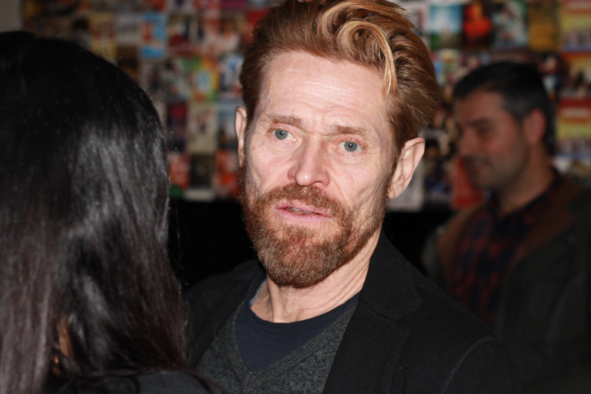 Willem Dafoe at Lisbon Film Festival 2017